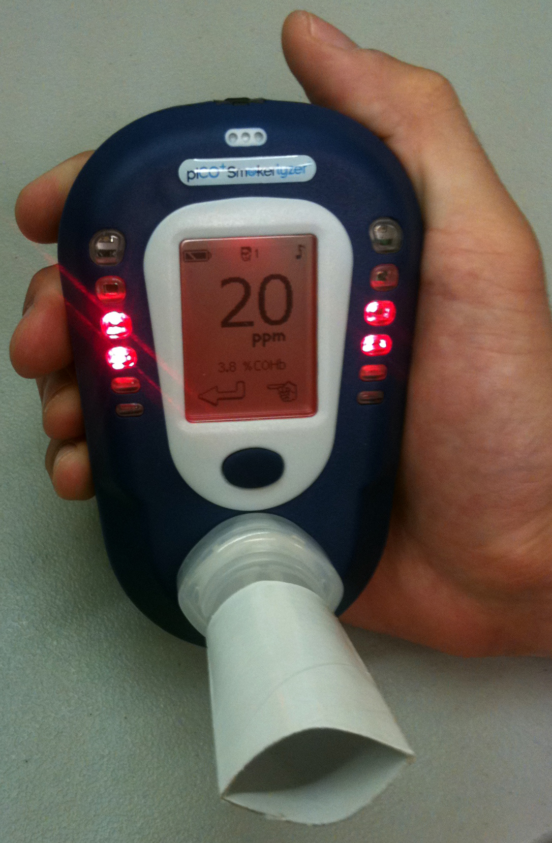 Breath carbon monoxide monitoring device displaying results of a test.